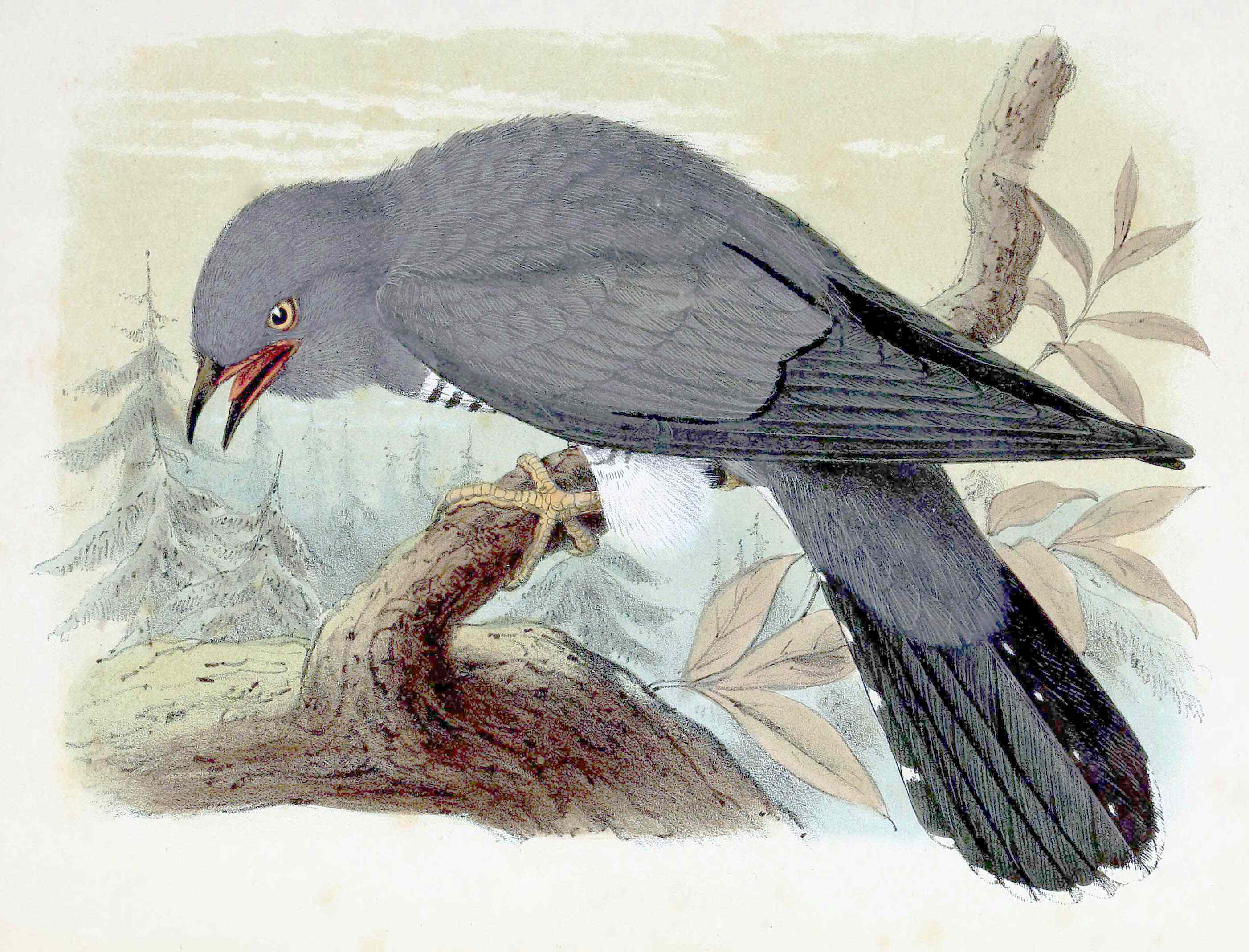 « Cuculus canorus » = Cuculus canorus (Common cuckoo)